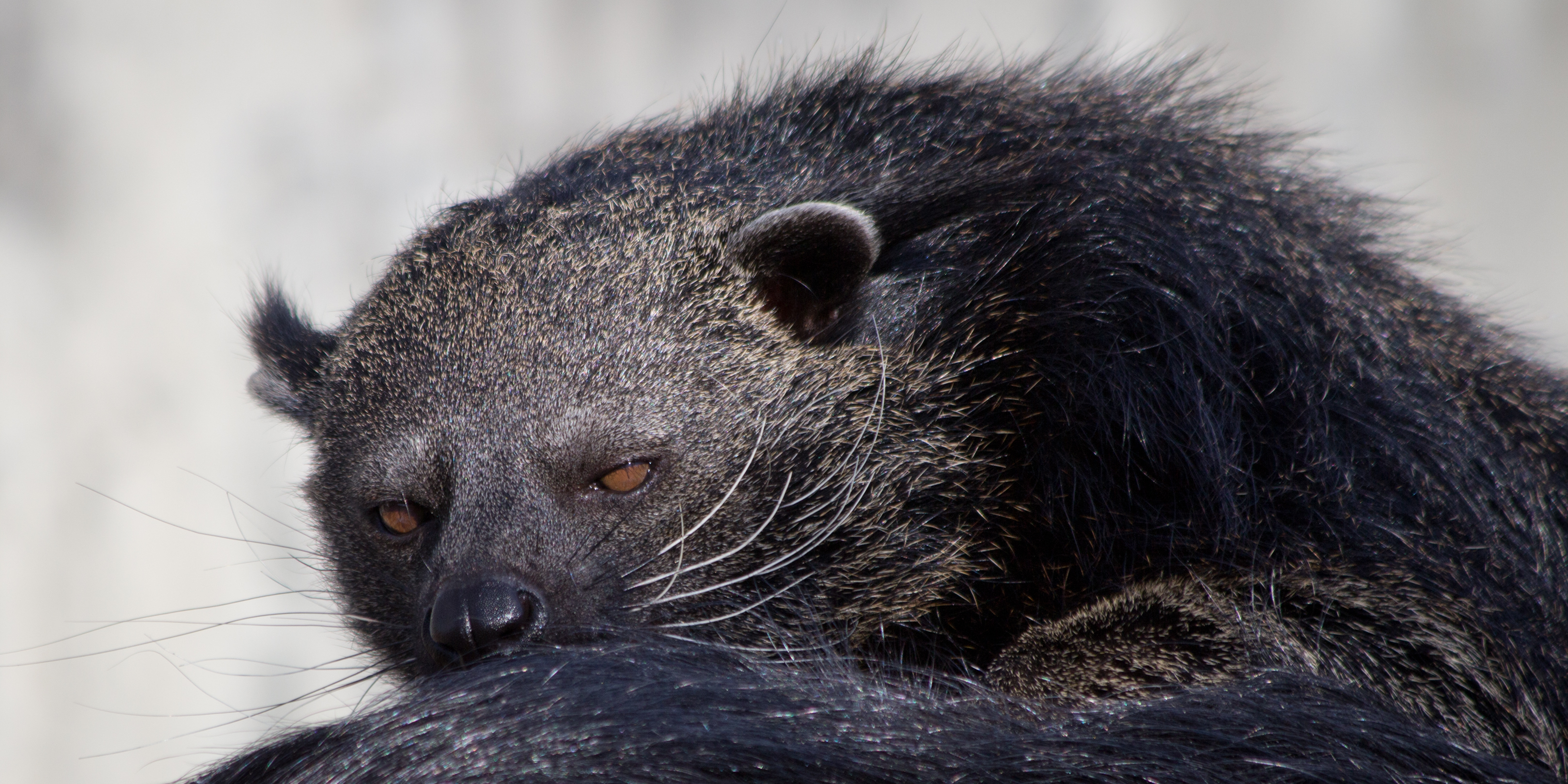 Binturong (Arctictis binturong) at the Zoo of Madrid, Spain.